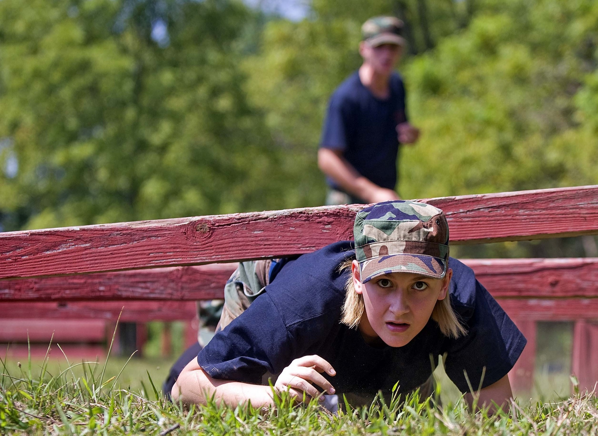 Civil Air Patrol Cadets negotiate the conditioning course at Camp Atterbury Joint Maneuver Training Center in central Indiana, Aug. 5, part of their annual encampment training. CAP cadets complete their encampment to gain experience in their field, similar to the Army's Basic Combat Training.